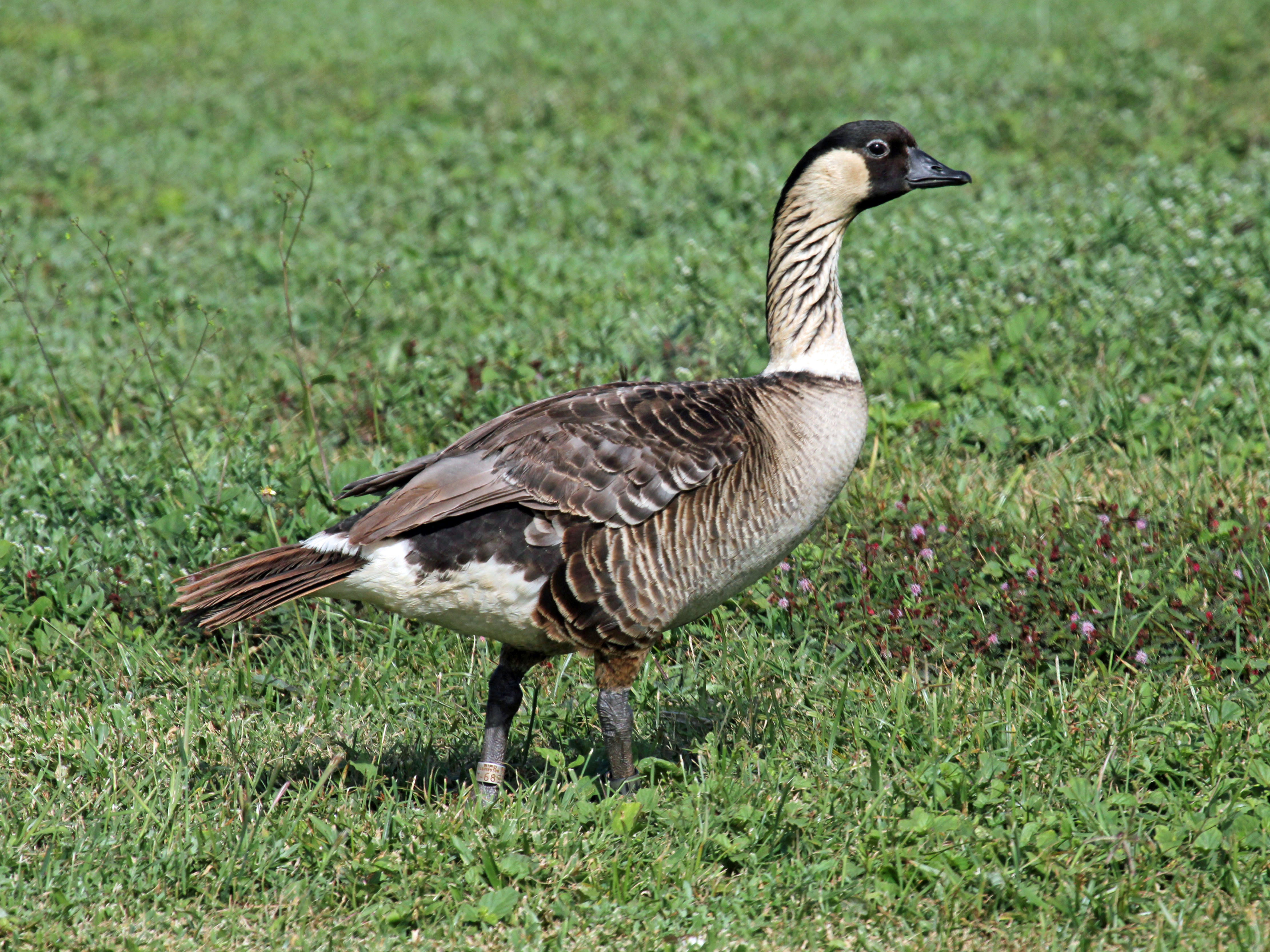 Nene, also Hawaiian Goose (Branta sandvicensis) - Kauai, Hawaii